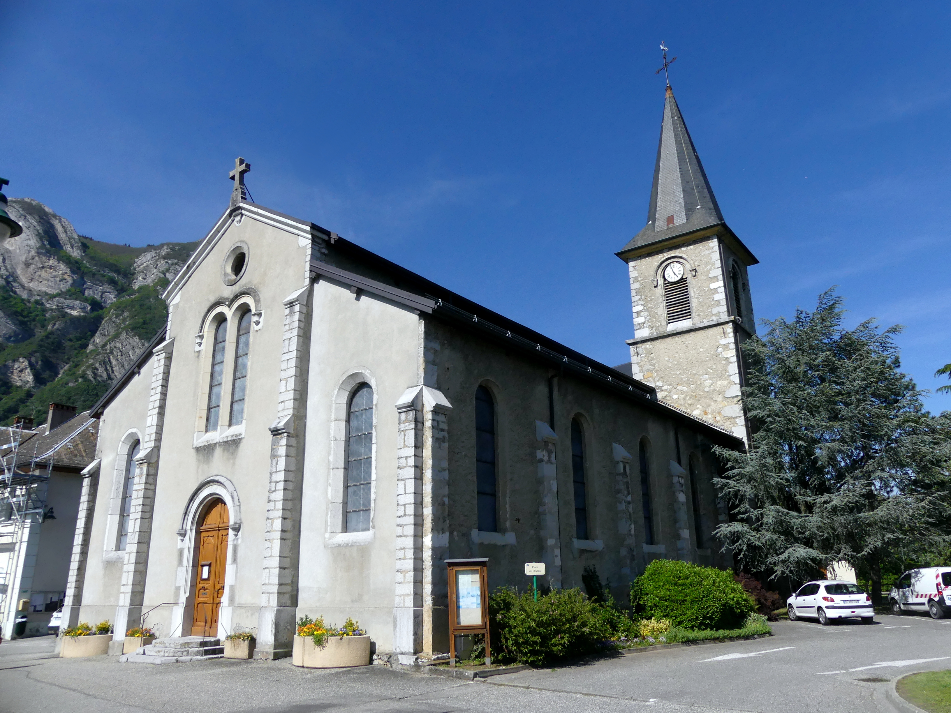 Sight of Saint-Blaise church of Francin, Savoie, France.